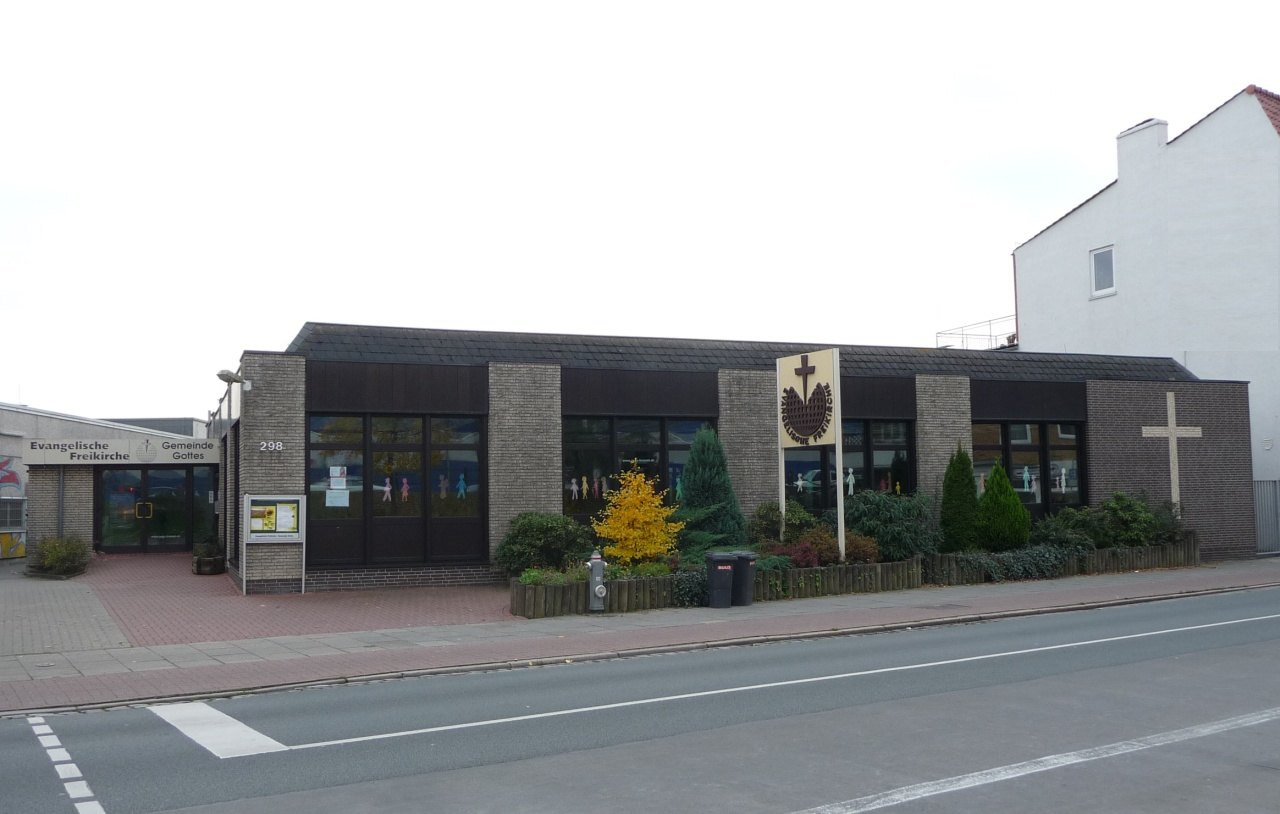 evang.-free-church Community of God in Bremen-Woltmershausen